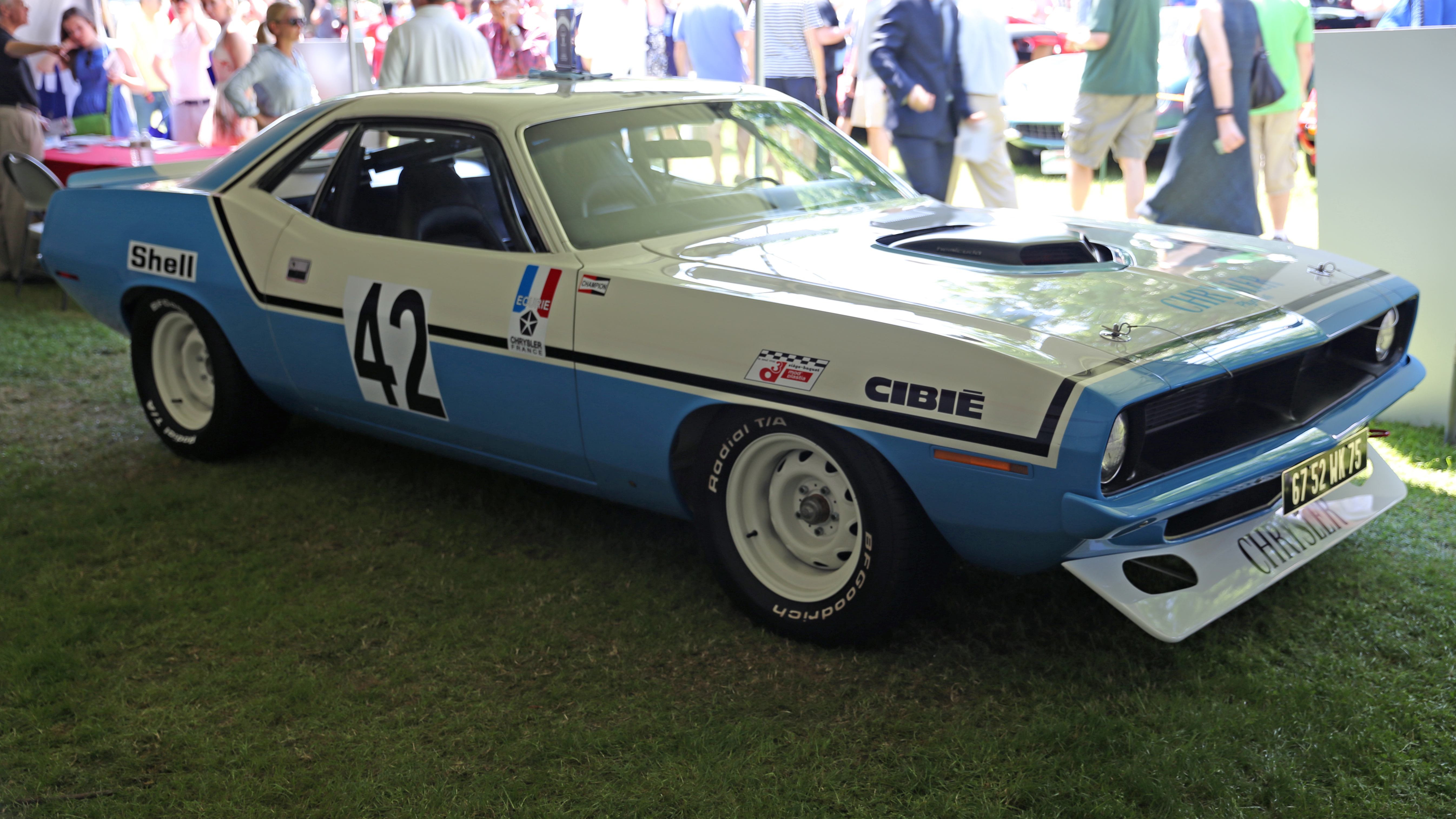 1970 Plymouth Hemi Cuda at the 2013 Greenwich Concours d'Elegance. This was raced until 1975 in France, originally by Ecurie Chrysler France as a works car, and is "the most decorated 'Cuda ever".